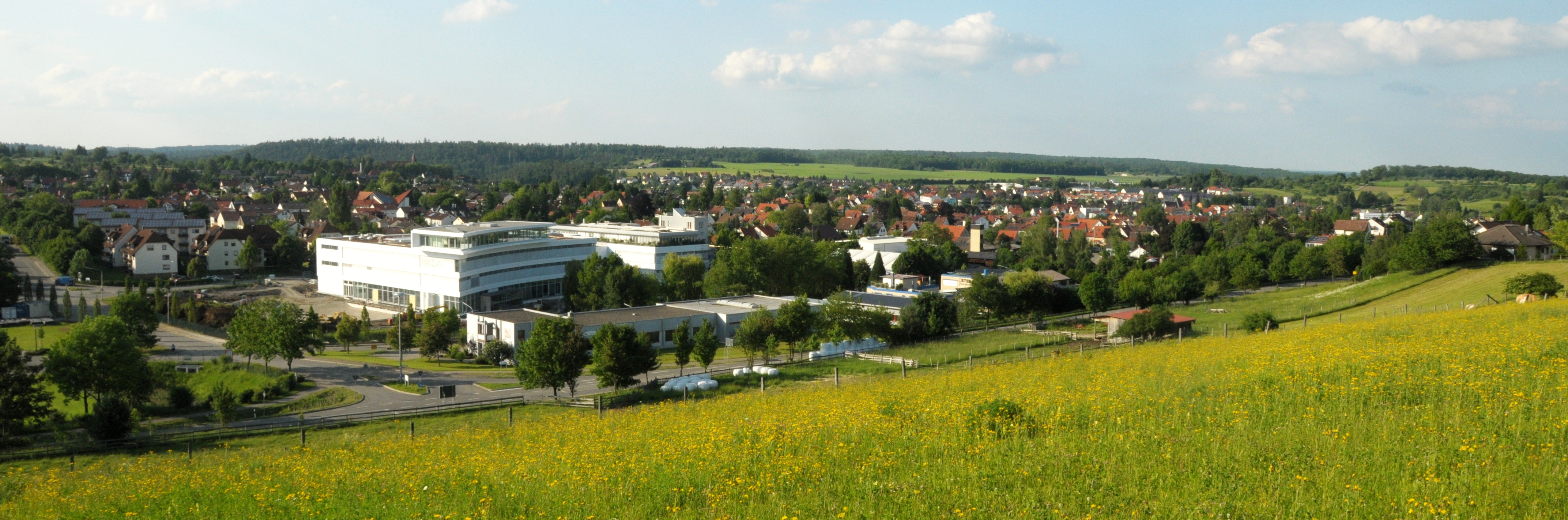 Bodelshausen from Sickingen